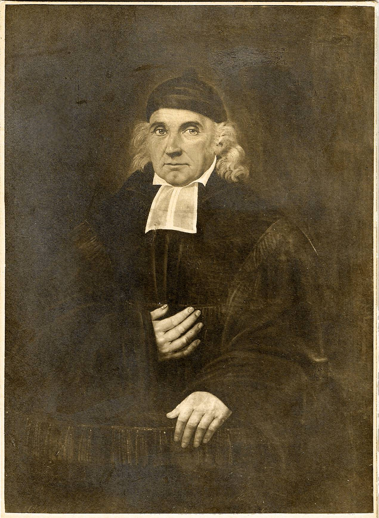 Johann Georg Christoph Neide - Picture about 1900 after an oilpainting from ca. 1820